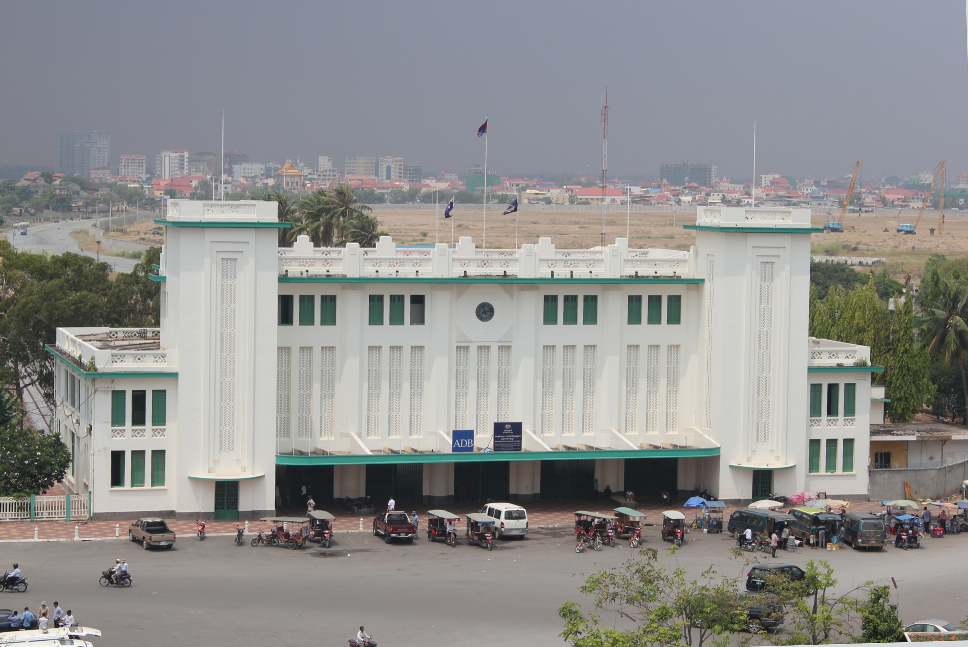 This is a railway station in Phnom Penh, Cambodia.